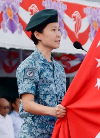 Photo taken at a change-of-command ceremony during oath taking.